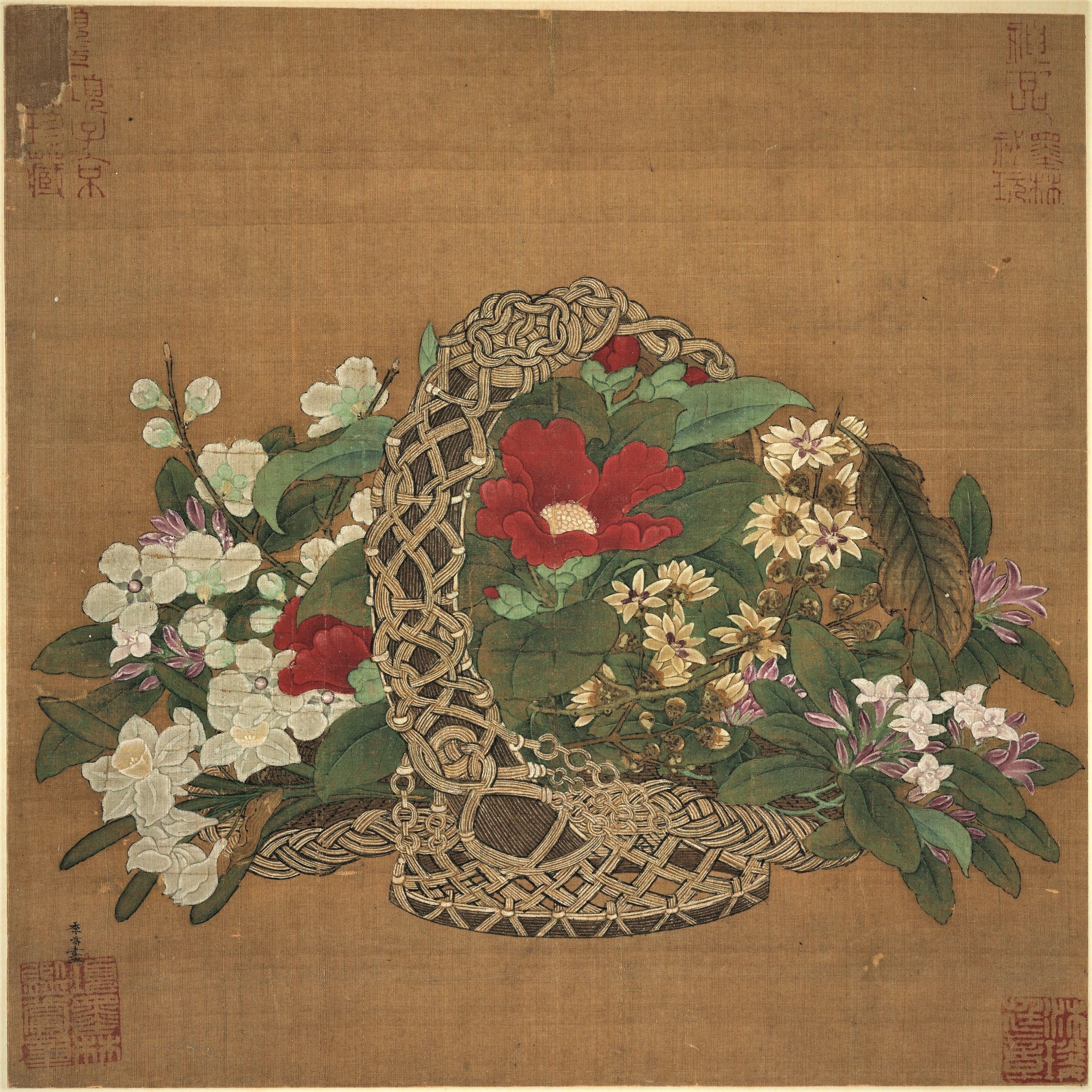 Painting of a basket with flowers, by the Southern Song Chinese artist Li Song. Ink and color on silk, from a leaf album of 12 paintings.